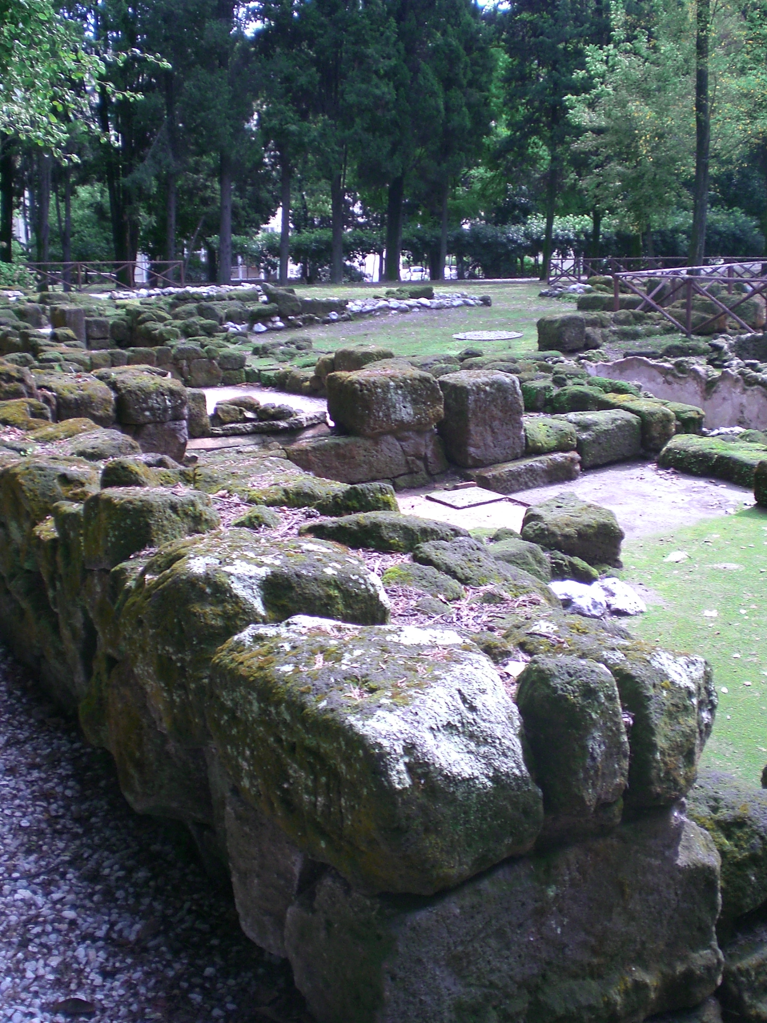 Archaeological area of Fratte